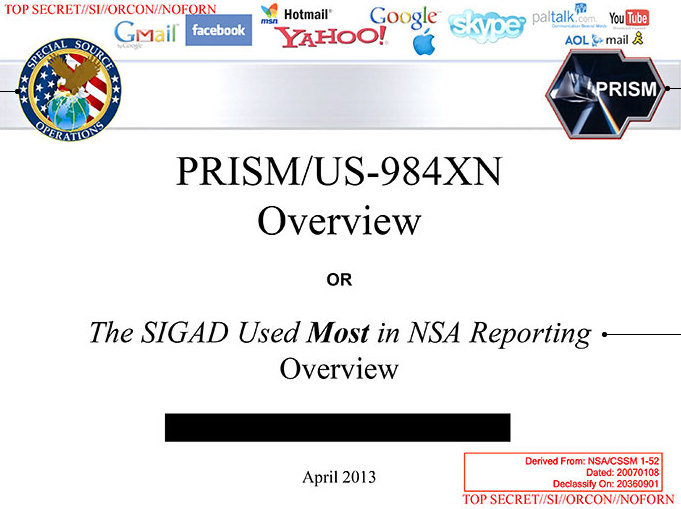 Cover slide of the US Federal Government's data collection program PRISM.